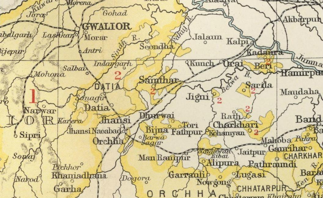 1909 Imperial Gazetteer of India Central India map section